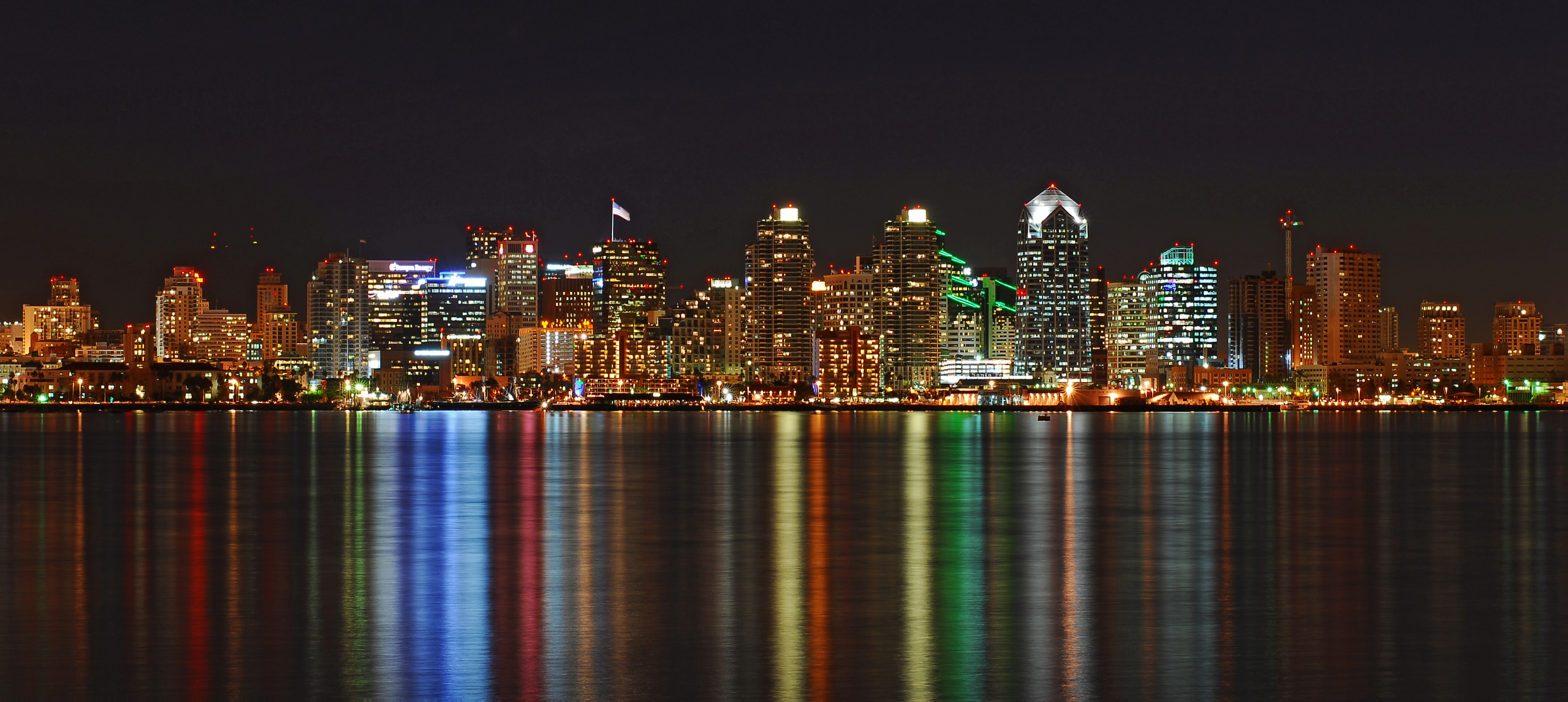 Night shot profiling the Colors and Lights of the Downtown Sky. Night Shot, Long Exposure. San Diego, California.